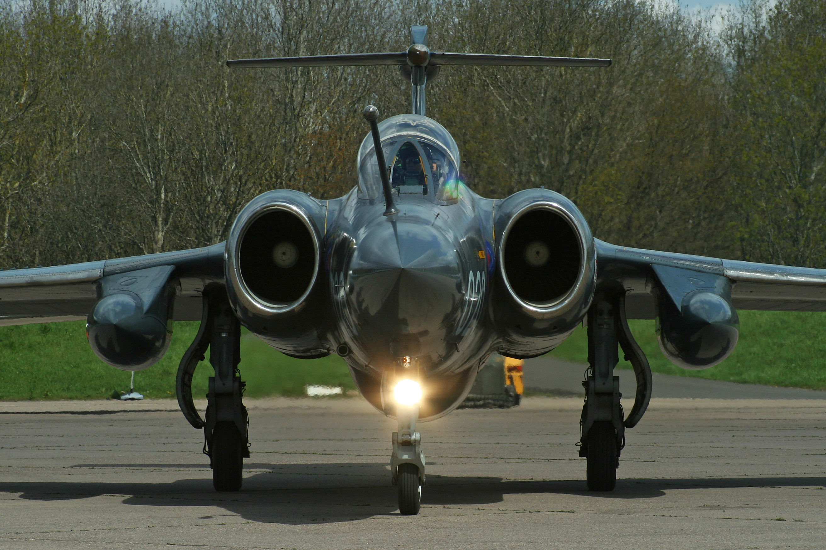 Head-on shot. This is an impressive machine! msn B3-03-74. Taxiing out to line up with two other Bucc's for a high speed taxi run. 2012 Cold War Jets Day. Bruntingthorpe. 06-5-2012